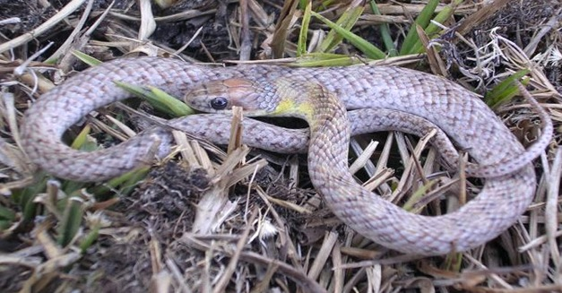 Specimen of Erythrolamprus poecilogyrus in Lençóis Maranhenses National Park, Maranhão State, Northeastern Brazil. Photo by J. P. Miranda.